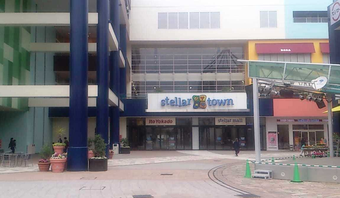 Stellar Town shopping mall in Saitama City, Japan